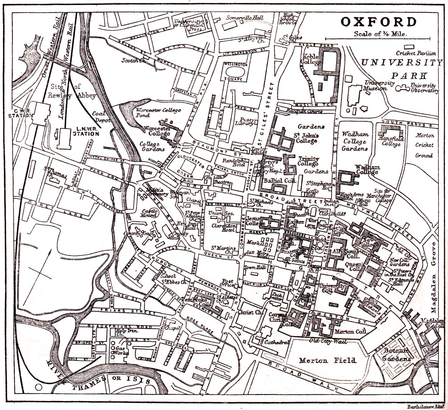 public domain image from "Overview map of Oxford from 1900 or so, showing the River Thames of Isis, giving the names of almost all the streets, marking the colleges of Oxford University, the railway and other items." Note that Christ Church College is not shaded as a college, for unknown reasons.